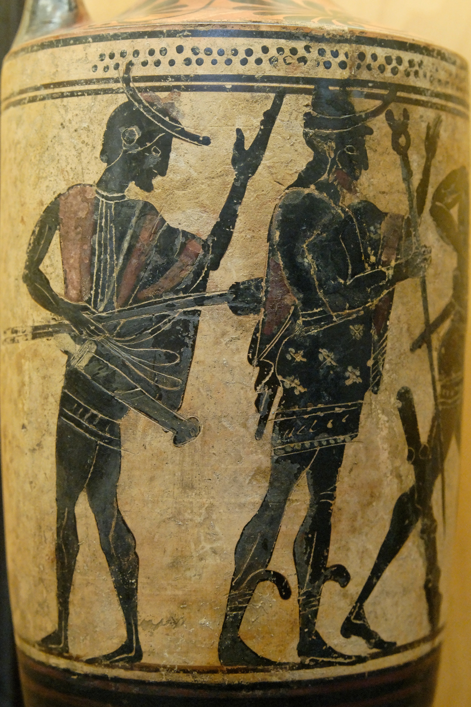 Iolaos (on the left) holds Herakles' arrows while the hero (here unseen) fights the Nemean Lion; Hermes (right) watches the scene. Attic white-ground black-figure lekythos, ca. 500 BC. From Gela.